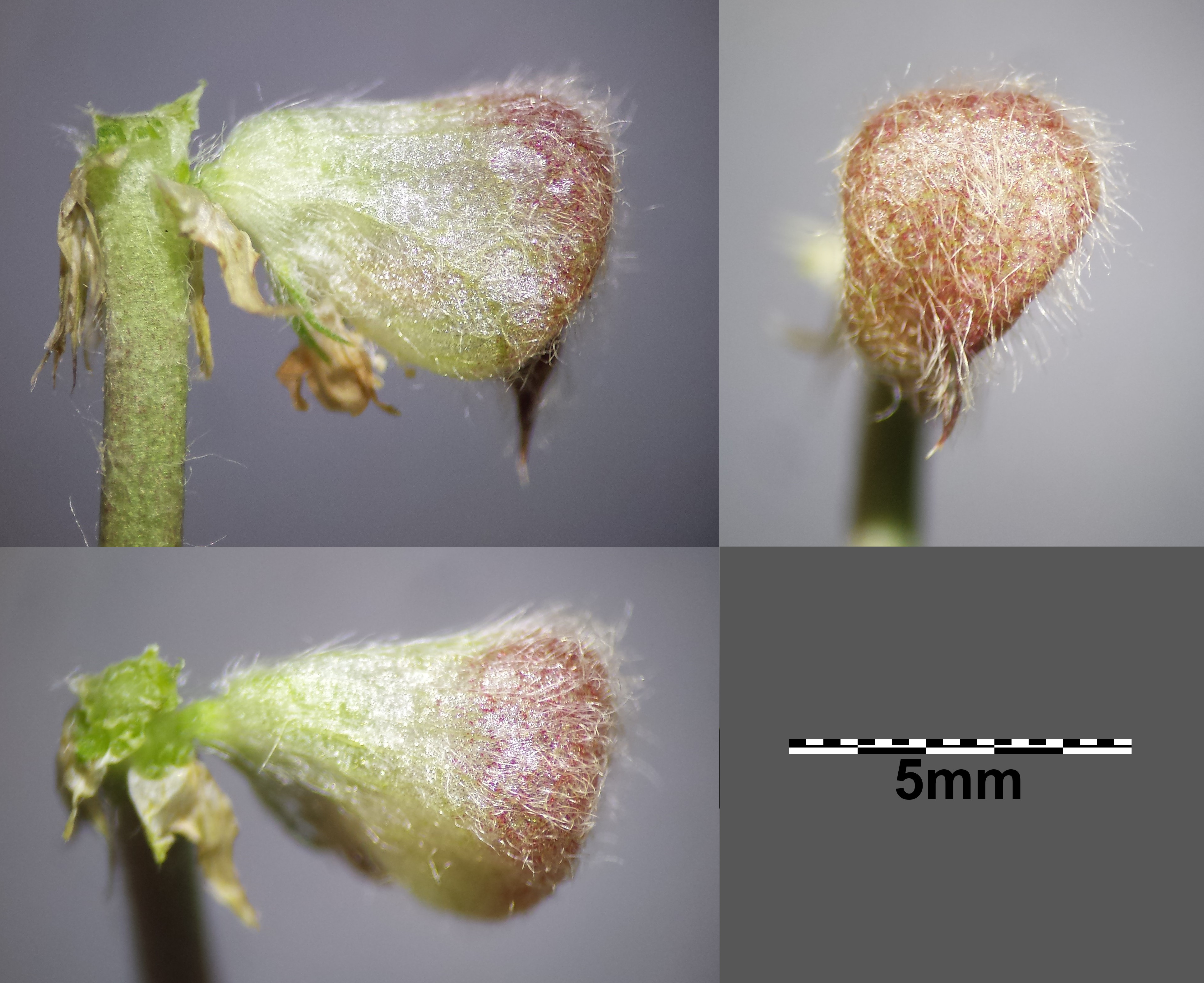 Fruit Taxonym: Trifolium fragiferum (subsp. fragiferum) s. str. ss Fischer et al. EfÖLS 2008 ISBN 978-3-85474-187-9 Location: Donaupark, Vienna-Donaustadt - ca. 160 m a.s.l. Habitat: turf